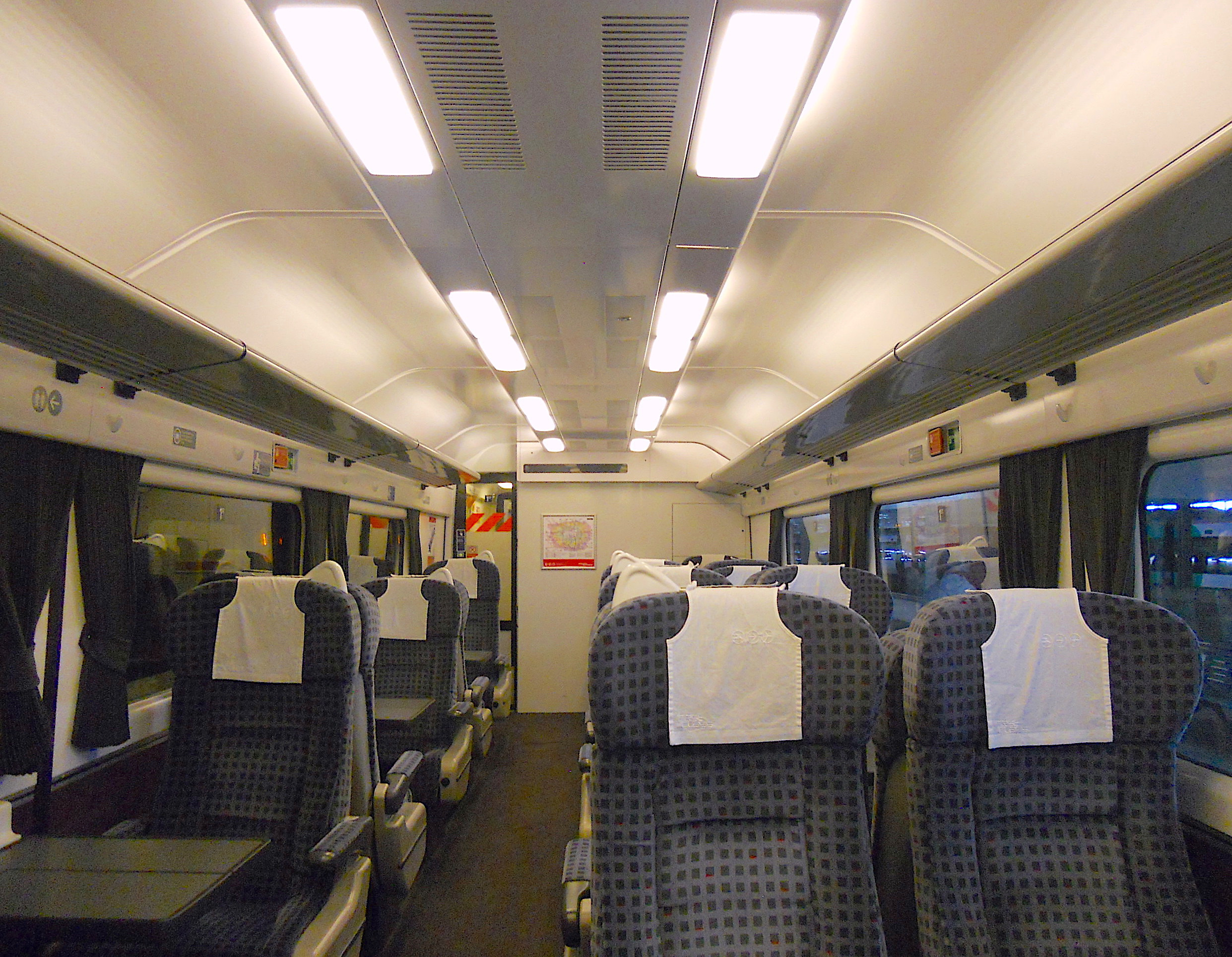 The interior of the relocated and refurbished First Class cabin